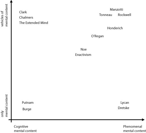 Various externalist positions compared with respect to two criteria: 1) cognitive or phenomenal mind? 2) content or vehicles of the mind?